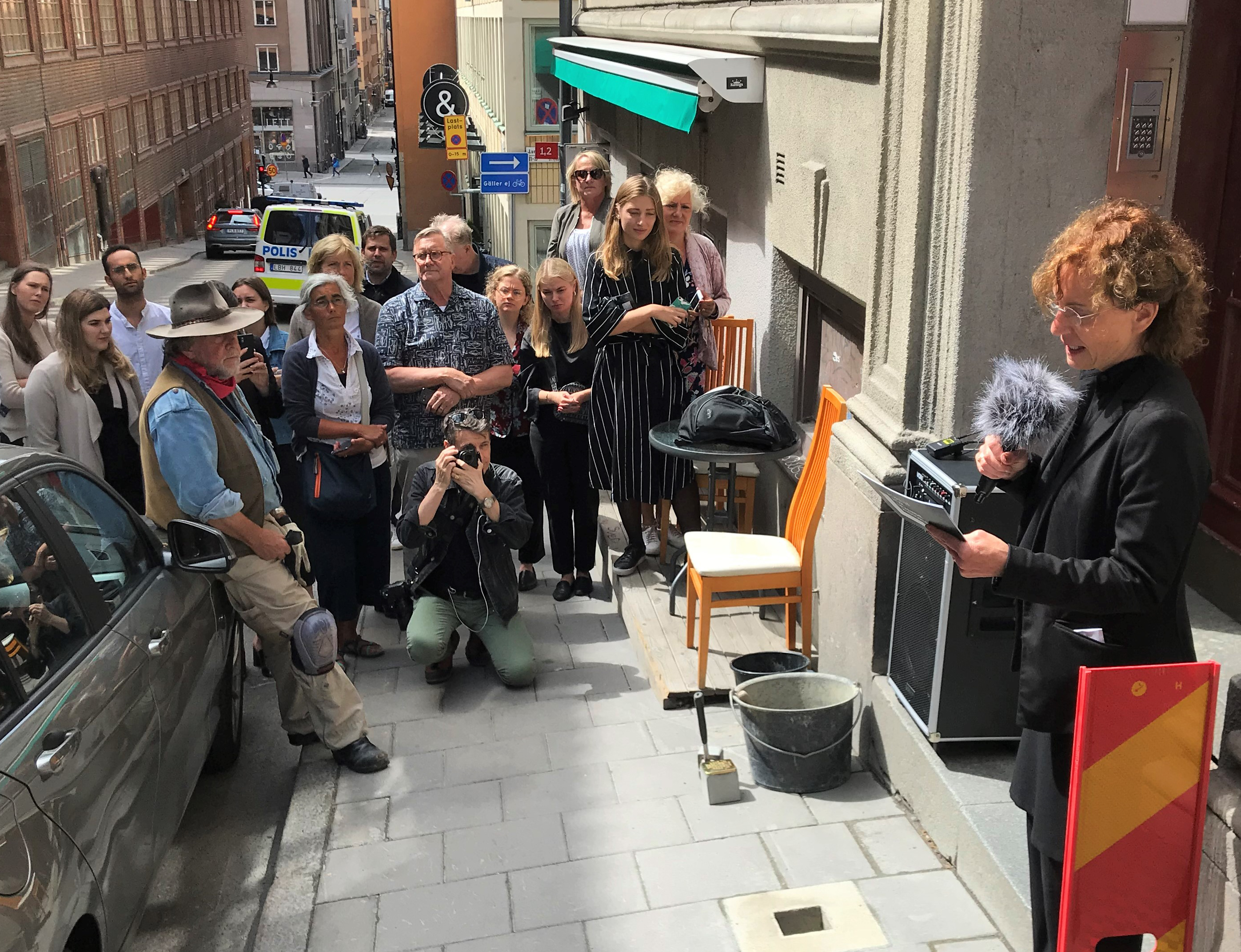 Ingrid Lomfors from the Swedish authority Living History Forum (Forum för levande historia) talks at the inauguration of a "Stolperstein" for the memory of Hans Eduard Szybilski on Apelbergsgatan 36 in Stockholm on June 14, 2019. The three first stolpersteine in Sweden were placed and and inaugurated in Stockholm that day. The man on the left, wearing a hat, is the artist Gunter Demnig.